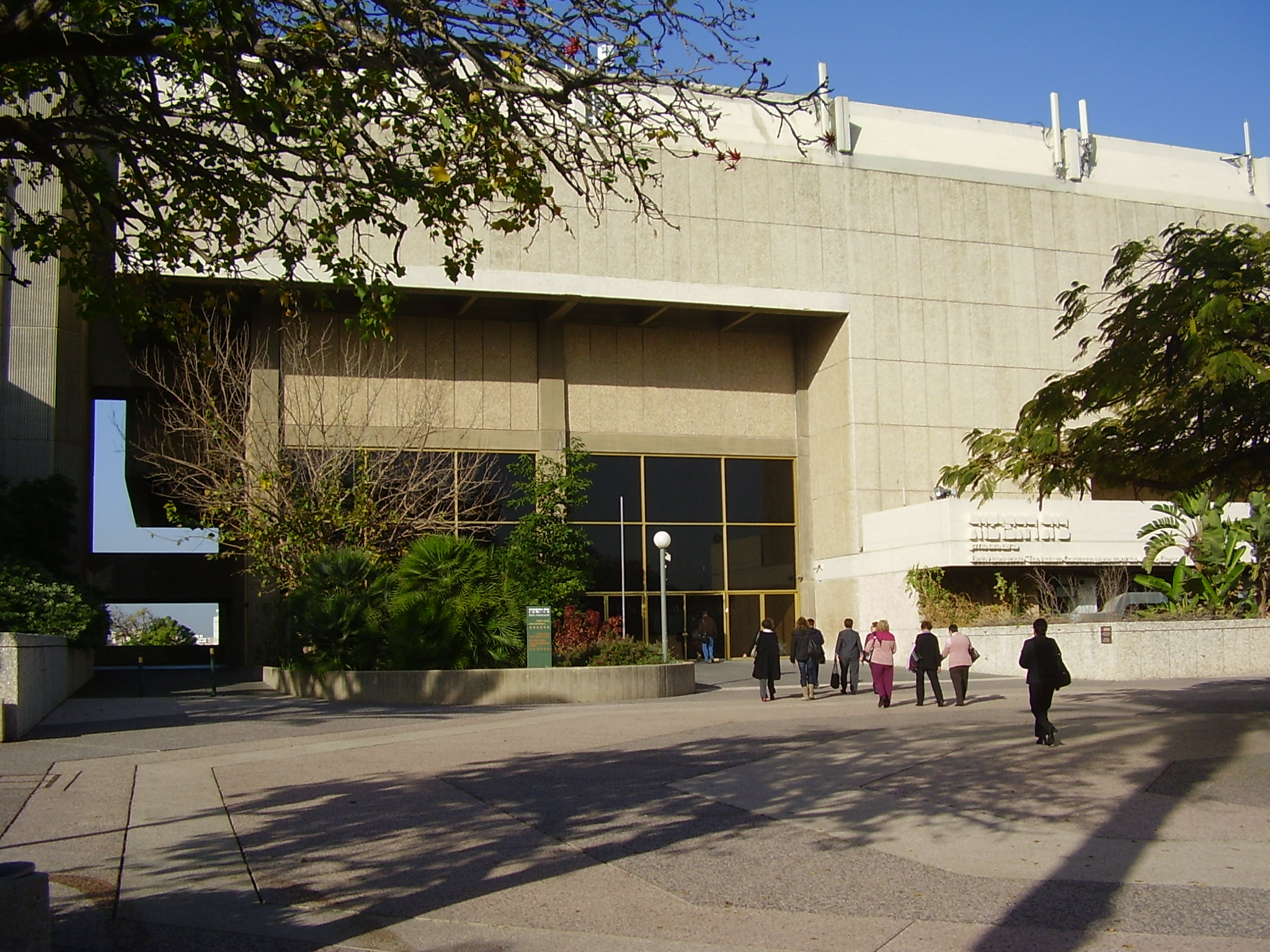 museum of the diaspora in tel aviv university